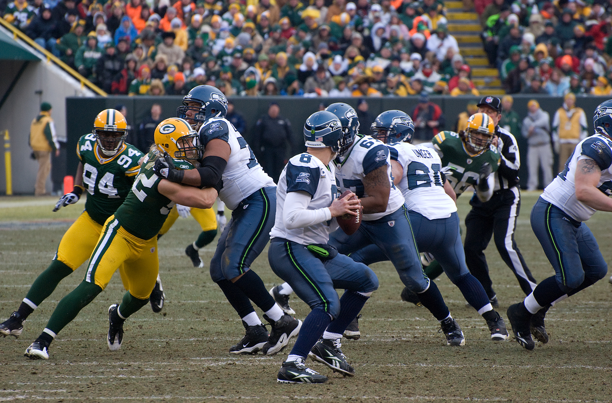 Seattle vs. Green Bay • December 27, 2009 at Lambeau Field in Green Bay, Wisconsin.